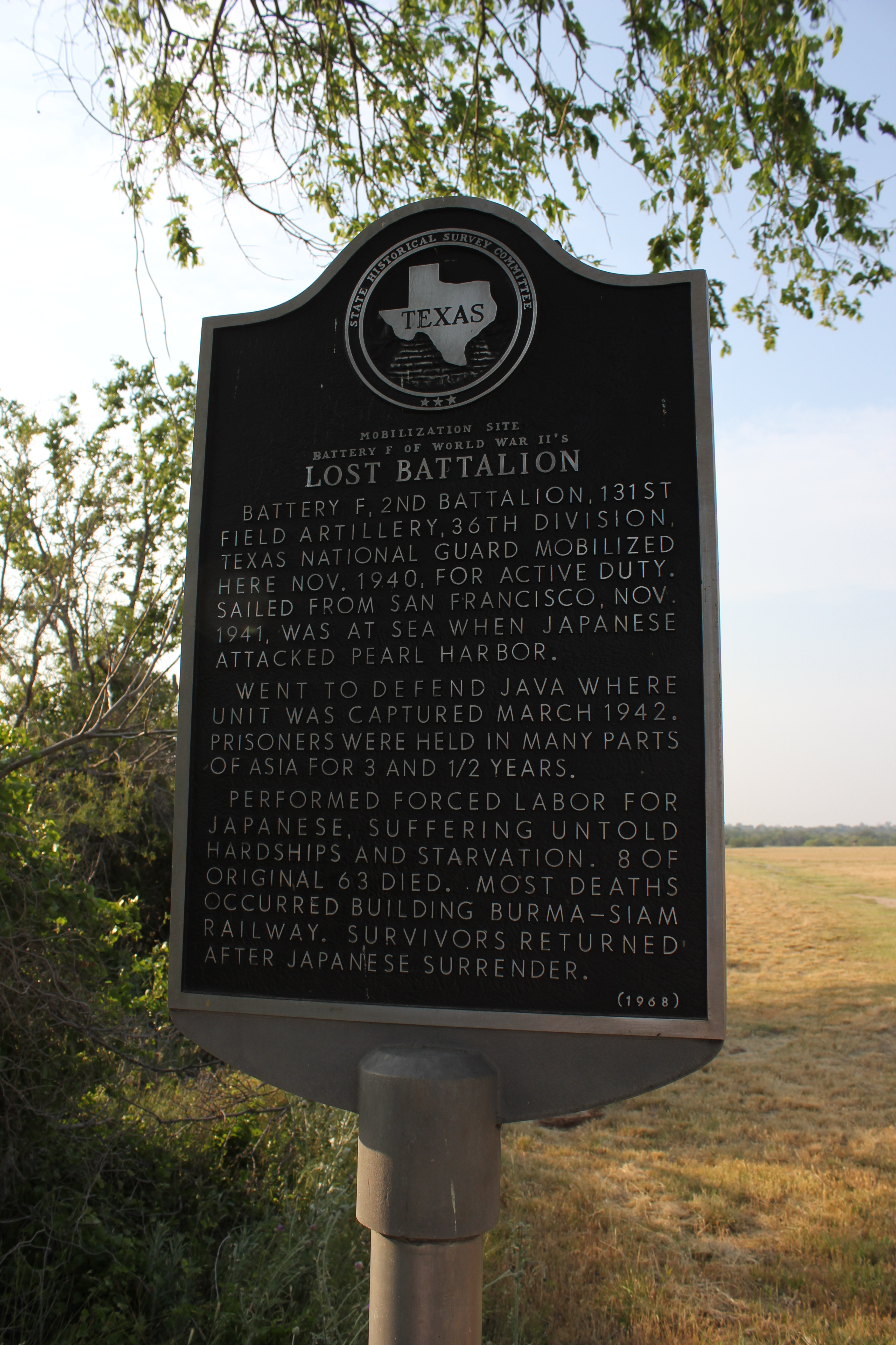 Battery F, 2nd Battalion, 131st Field Artillery, 36th Division, Texas National Guard mobilized here November 1940, for active duty. Sailed from San Francisco, November 1941, was at sea when Japanese attacked Pearl Harbor. Went to defend Java where unit was captured March 1942. Prisoners in many parts of Asia for three and one-half years. Performed forced labor for Japanese, suffering untold hardships and starvation. 8 of original 63 died. Most deaths occurred building Burma-Siam Railway. Survivors returned after Japanese surrender. (1968)